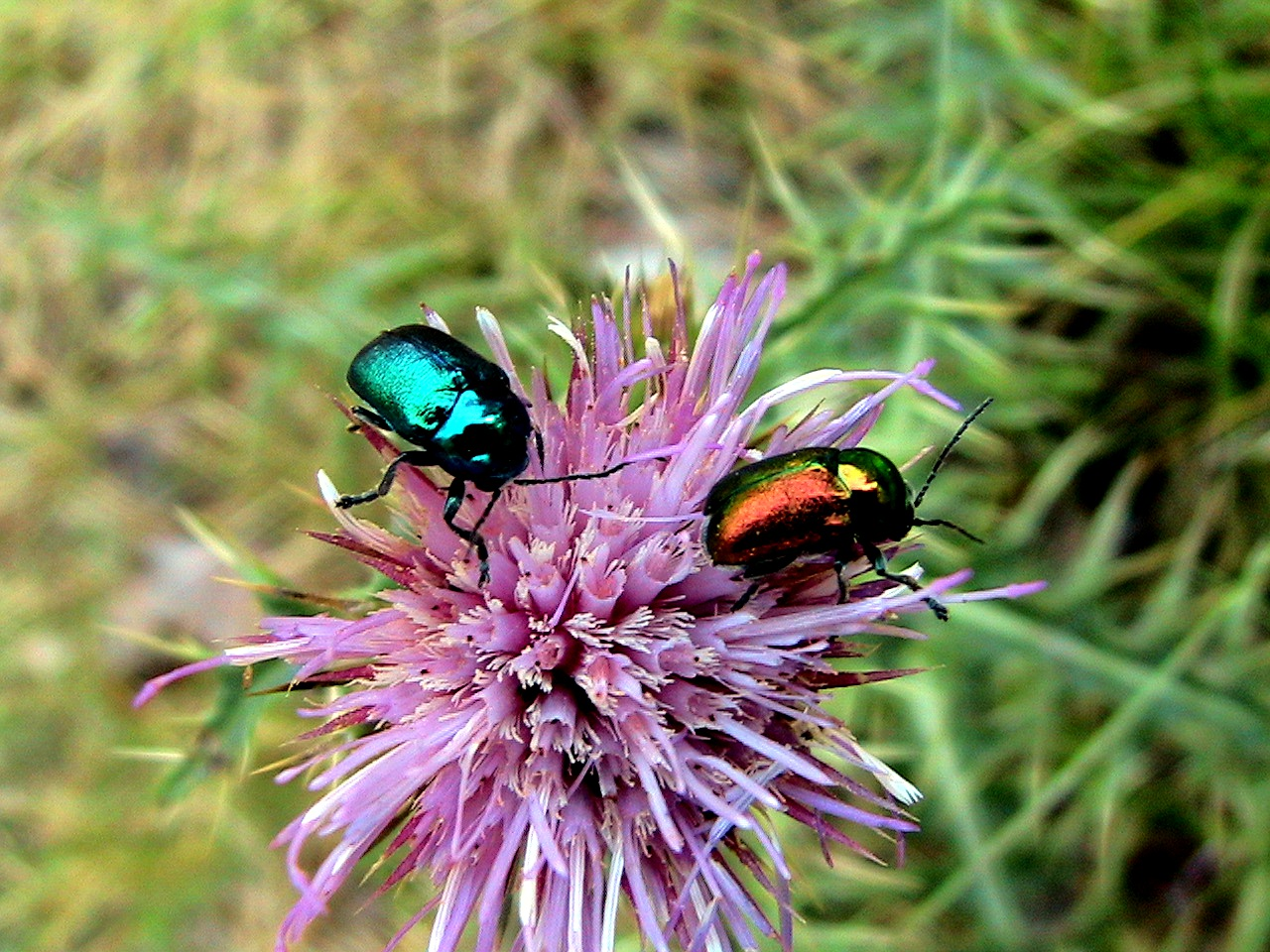 Centaurea jacea. In la Bòfia, Guixers (Solsonès - Catalunya). To 1.640 m. altitude